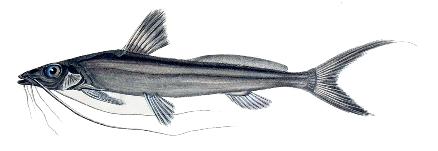 « Pimelodus gracilis » = Pimelodella gracilis